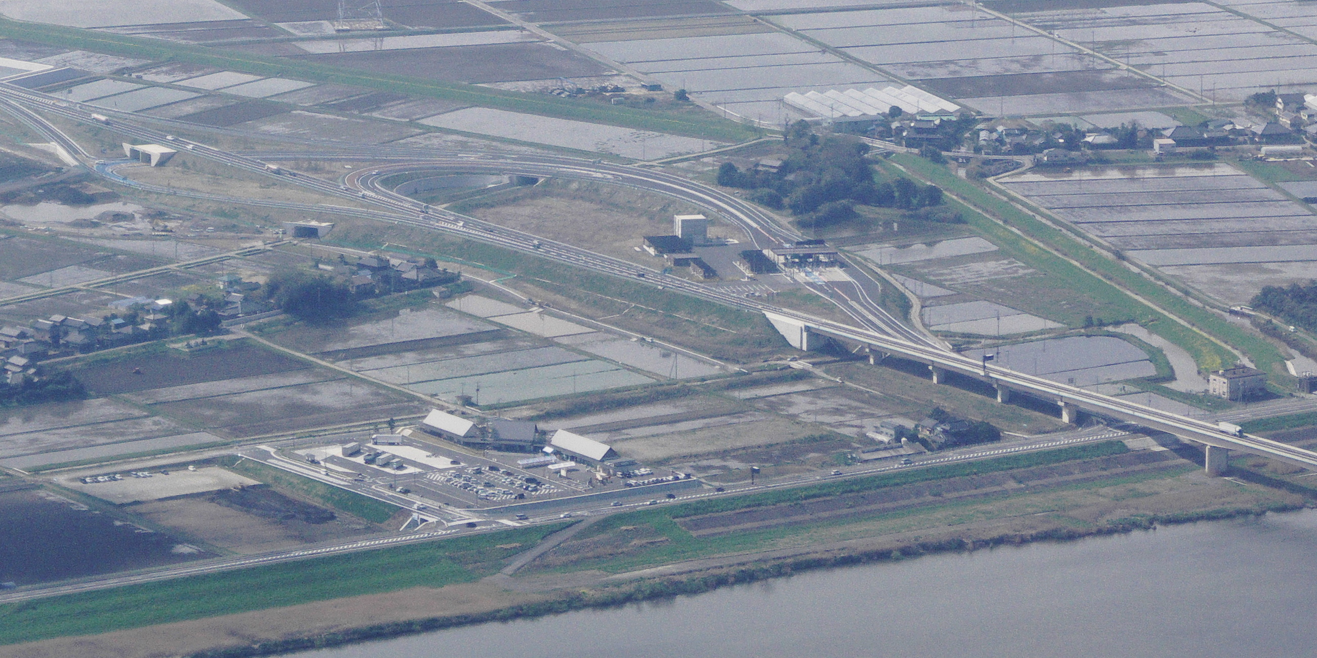 Kozaki IC and Roadside station to watch from the sky,Chiba prefecture,Japan